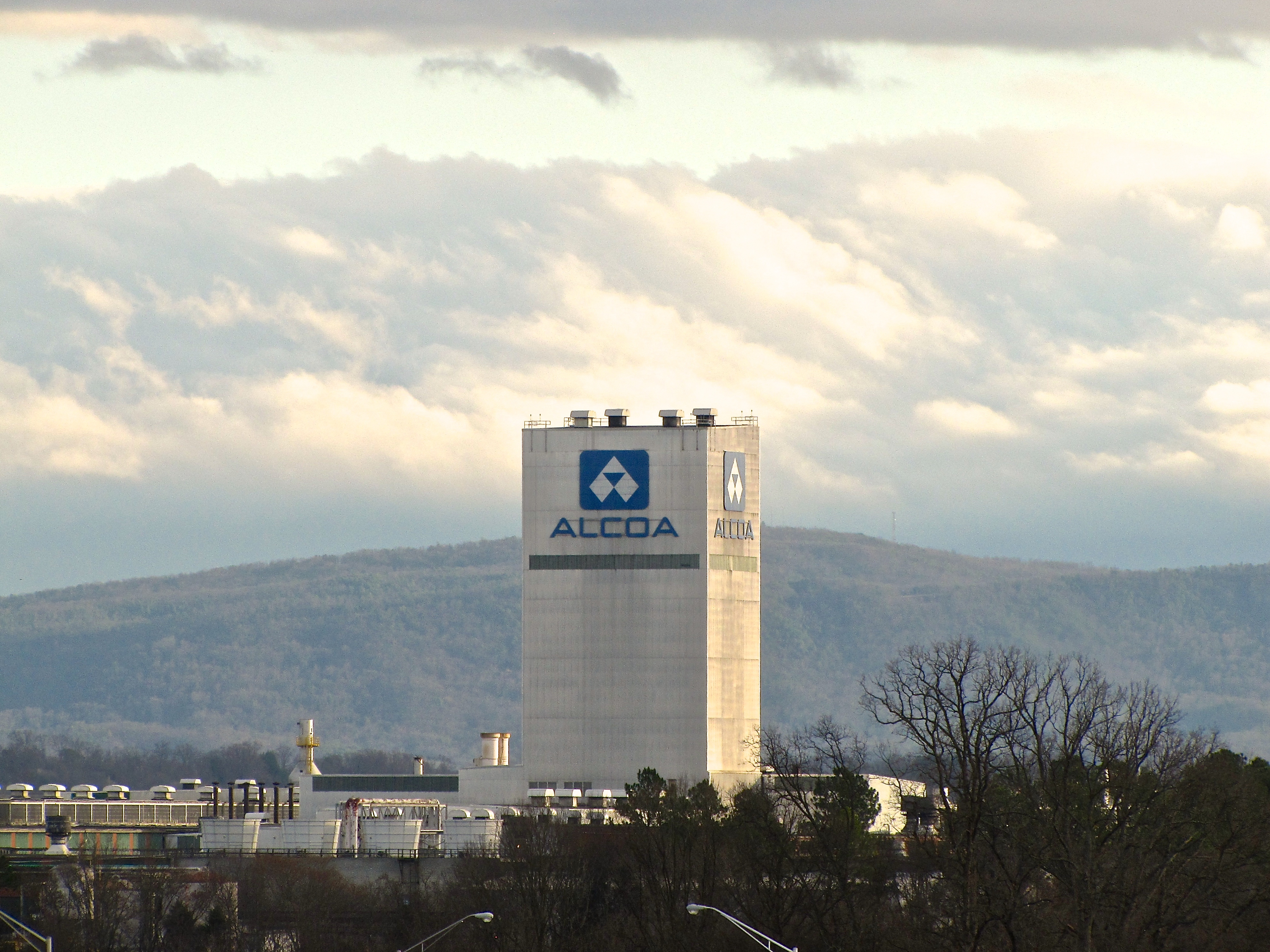 The Continuous Cold Mill tower at ALCOA's North Plant in Alcoa, Tennessee, United States, viewed from the northwest.